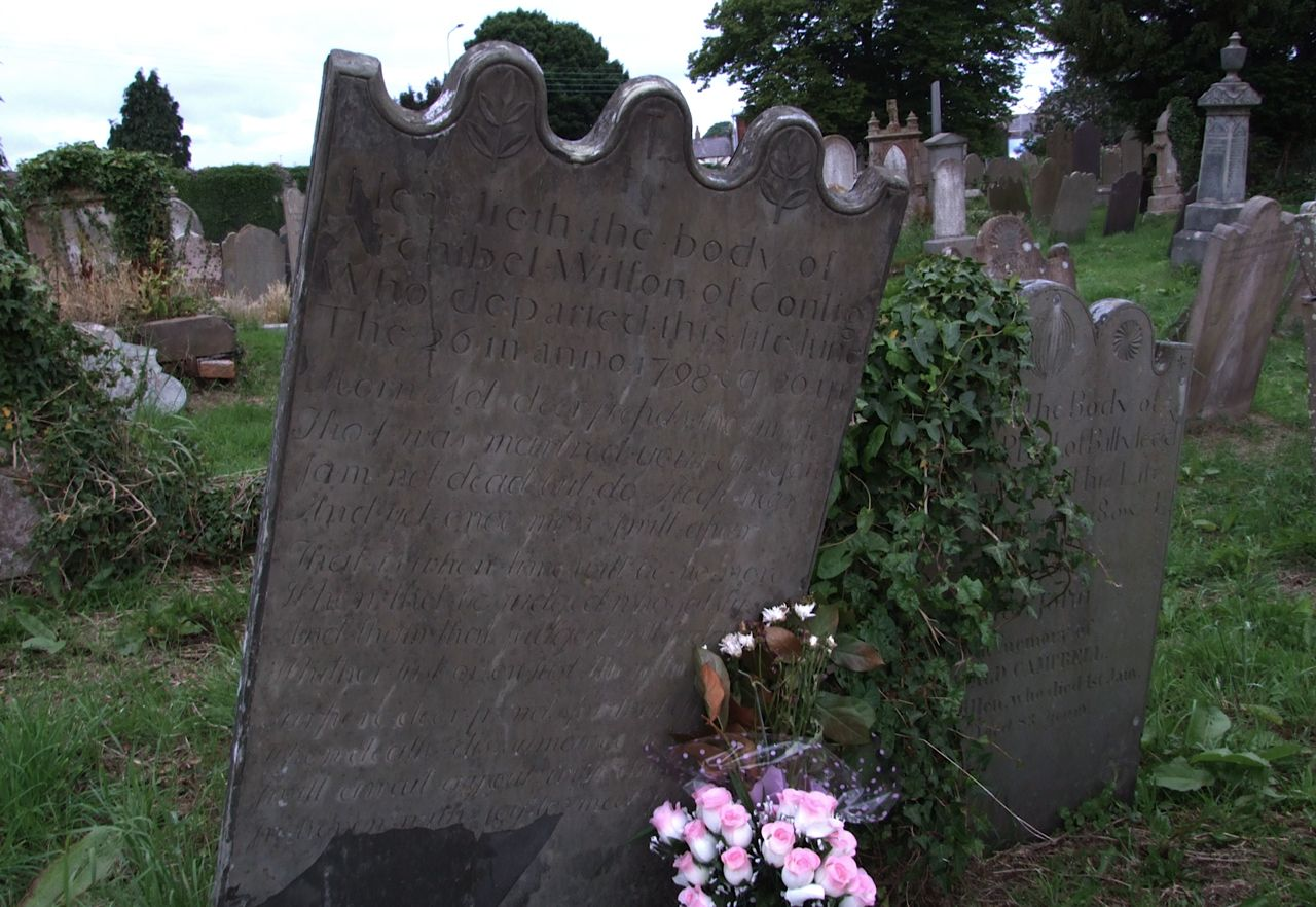 The grave in Bangor Abbey, Bangor, County Down, of Archibel Wilson, a United Irishman hanged for his part in the Rebellion of 1798. It reads: "Here lieth the body of Archibel Wilson of Conlig who departed this life June the 26 in anno 1798, eg 26yr. Morn not, deer frends, tho I’m no more. Tho I was martred, your eyes before I am not dead, but do sleep hear. And yet once more I will apeer. That is when time will be no more. When thel be judged who falsely sore. And them that judged will judged be. Whither just or on just, then thel see Purpere, deer frends, for that grate day. When death dis sumance you away I will await you all with due care. In heven with joy to meet you there."